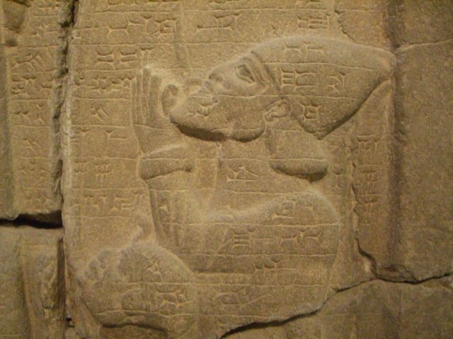 Esarhaddon returned after defeating Taharqa at Memphis; Taharqa's son, the prince is shown in bondage on this stele. Shows the cuneiform story, (over-inscribed on the scene). The victory was from battle no. 2, 671 BC. Battle no. 1 was won by Taharqa in 674 BC.(see Victory stele of Esarhaddon over Taharqa-671 BC)